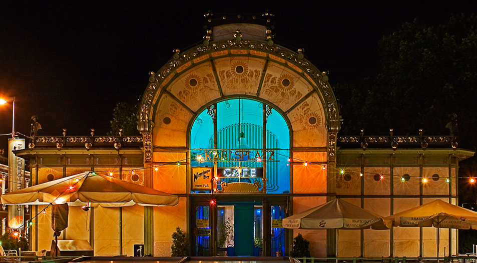 Subway station Karlsplatz, Vienna